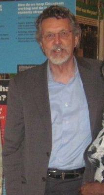 Named one of 25 “innovators on the cutting edge” by Newsweek Magazine for his work redefining the models of urban and suburban growth in America, CNT friend Peter Calthorpe, stopped in Chicago on his book tour for his latest, "Urbanism in the Age of Climate Change". CNT was pleased to co-sponsor this event held at the Chicago Architecture Foundation.